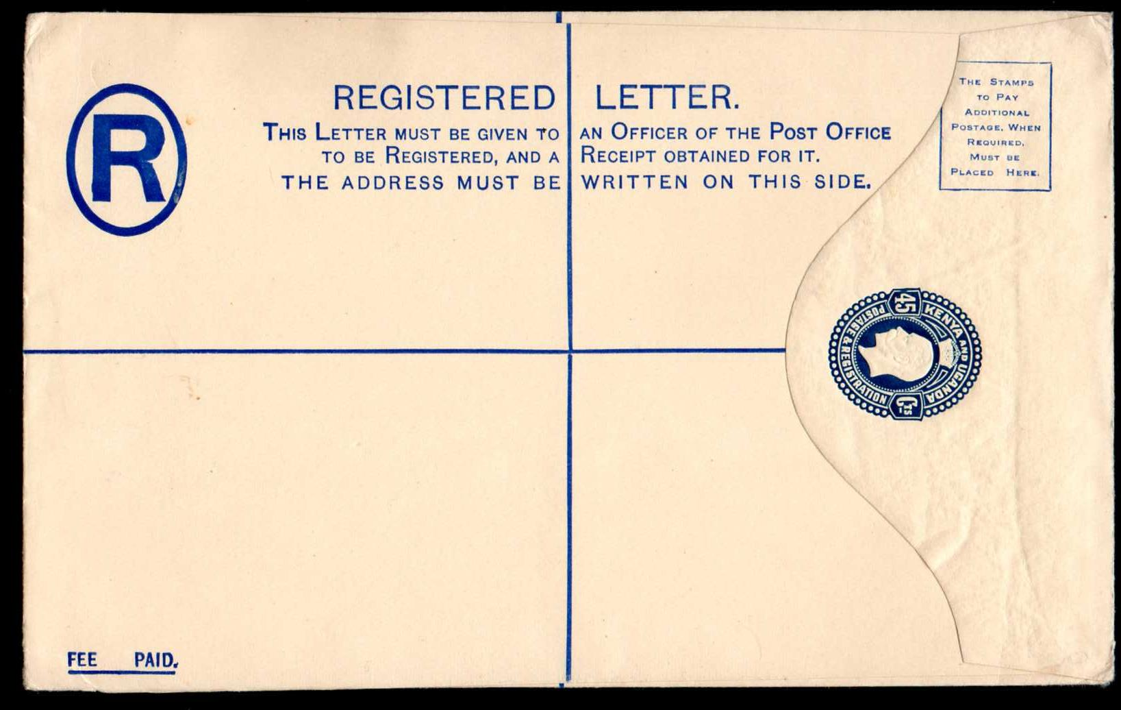 1930 45c Unused registered envelope of Kenya and Uganda. Robson Lowe catalogue number RP2.